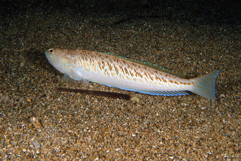 Trachinus draco photographed near Giglio Island (Tuscany, Italy). Depth: 11 m. Photo by Stefano Guerrieri.